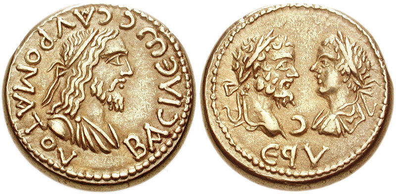 KINGS of BOSPORUS. Sauromates II, with Septimius Severus and Caracalla. Circa AD 174/5-210/1. AV Stater (18mm, 7.88 g, 12h). Dated 495 BE (AD 198/199). BACILEwC CAVPOMATOV, diademed and draped bust of Sauromates right / Laureate head of Septimius Severus right and laureate, draped, and cuirassed bust of Caracalla left, vis-à-vis; crescent between busts EQV (date) below. MacDonald 506/11; Anokhin 577 ; Frovola p. 177, F/b (an unlisted die combination). EF.